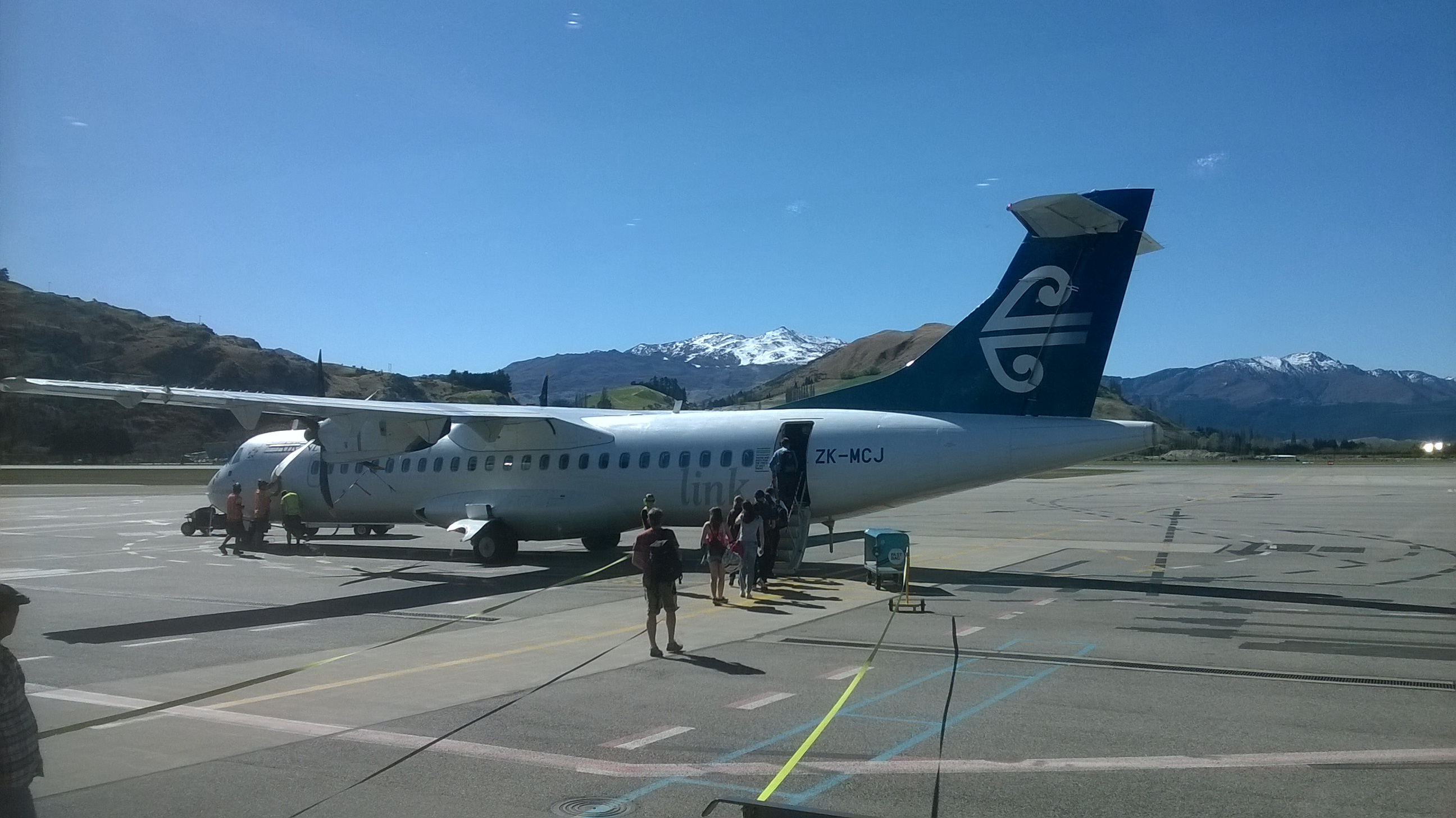 ATR 72 on the tarmac at Queenstown Airport